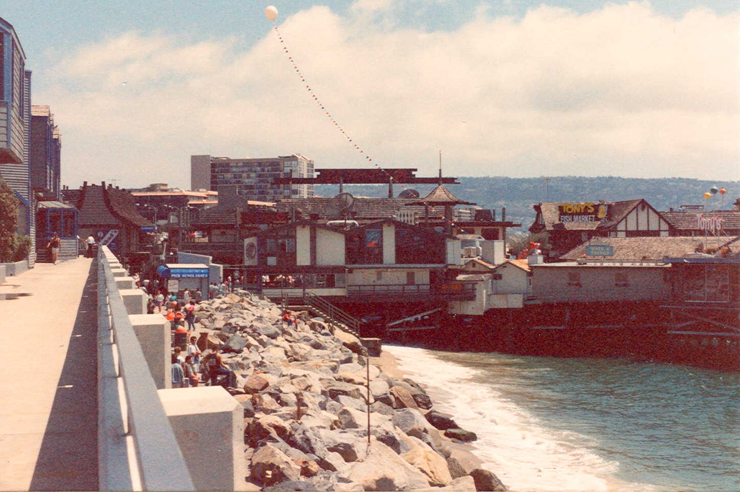 Pier in Redondo Beach, California. Photo by Gyrofrog, July 1991.